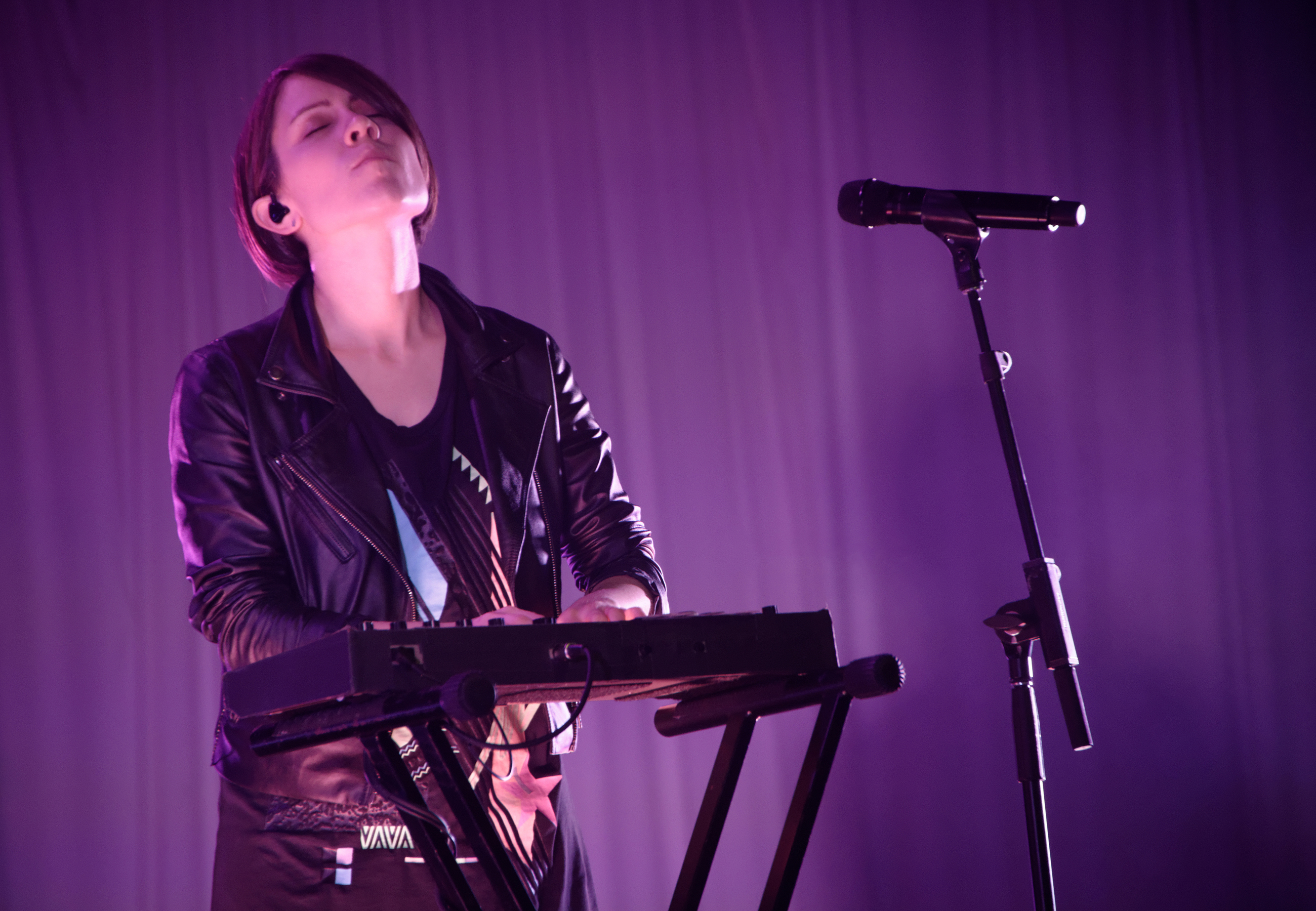 Tegan & Sara performing live in The Hangar on the O.C. Fairgrounds in Costa Mesa California on Wednesday November 19th, 2014. This was final Southern California show of the season in the Lexus Pop Up Concert series (#LexusPopUpConcerts), presented by Pandora.